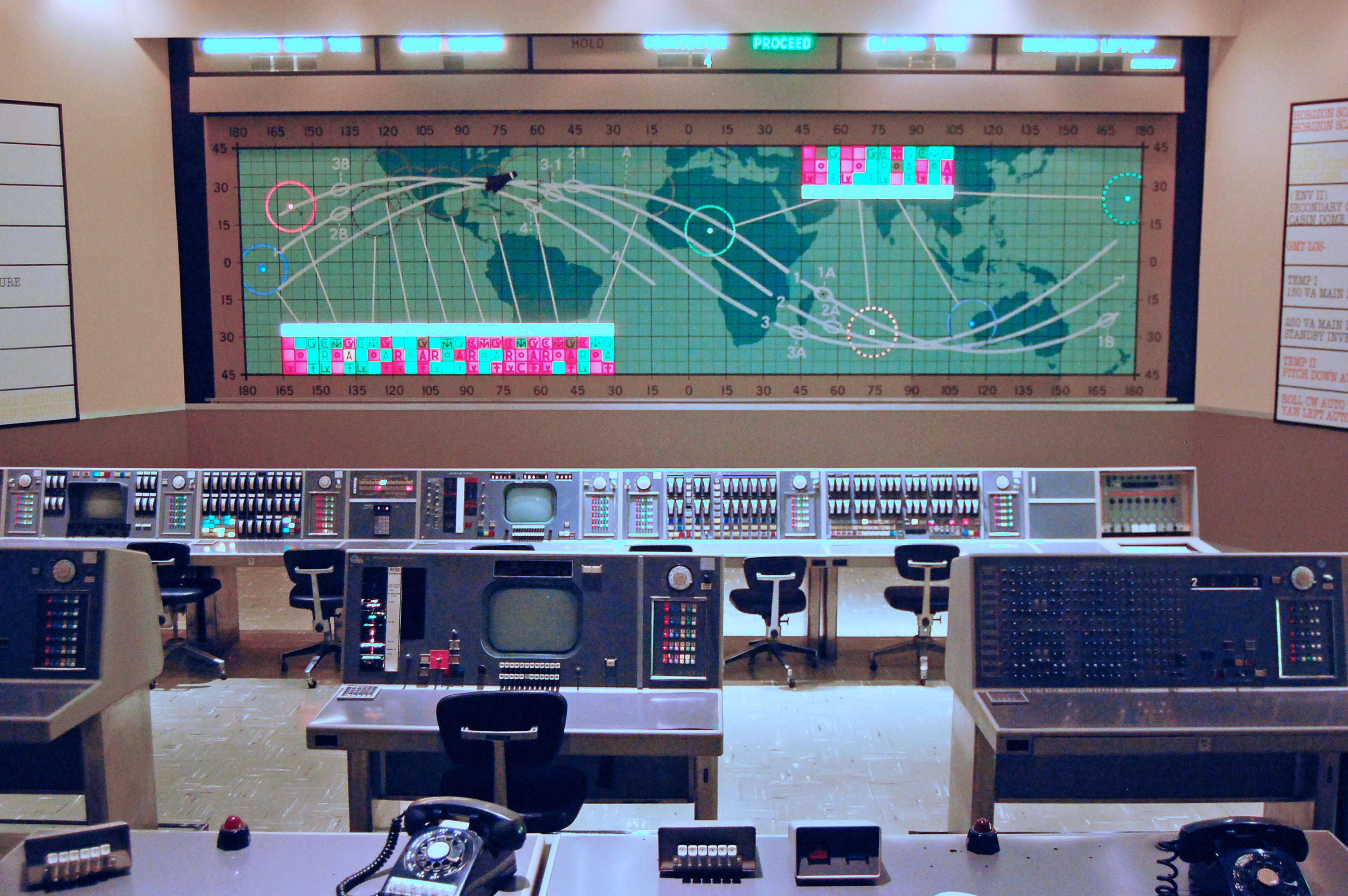 Mercury Control reproduced in the Debus Center of Kennedy Space Center Visitor Complex.